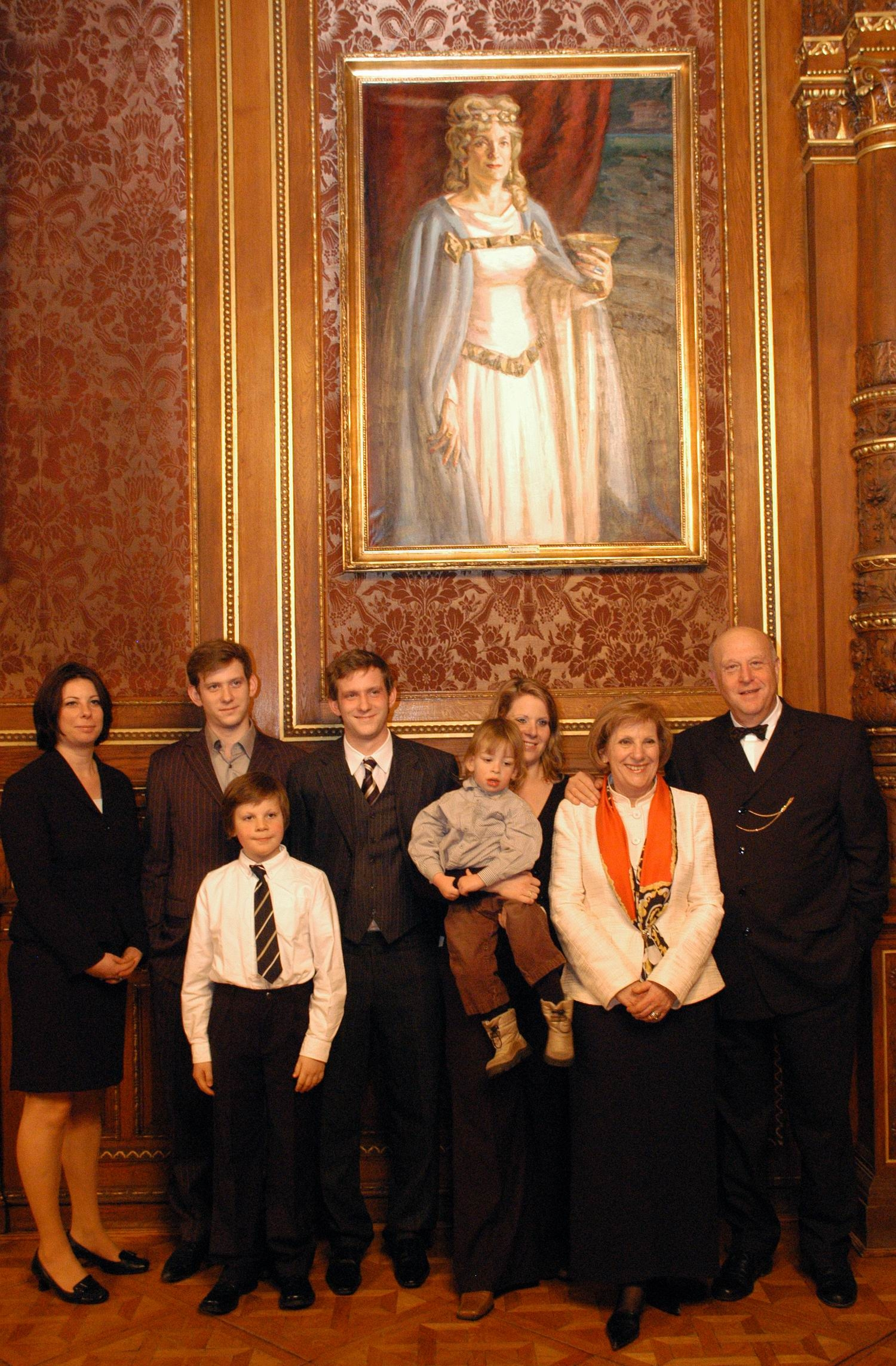 Székely Bertalan room in the Hungarian National Opera. In the back a painting of Delly Rozsi which is on loan to the opera by the Vamosi Family. In the front the descendants Julianna Forgacs-Vamosi, Dr. Zoltan Vamosi, David Vamosi, Benjamin Vamosi, Judit Vamosi, Daniel Bräutigam